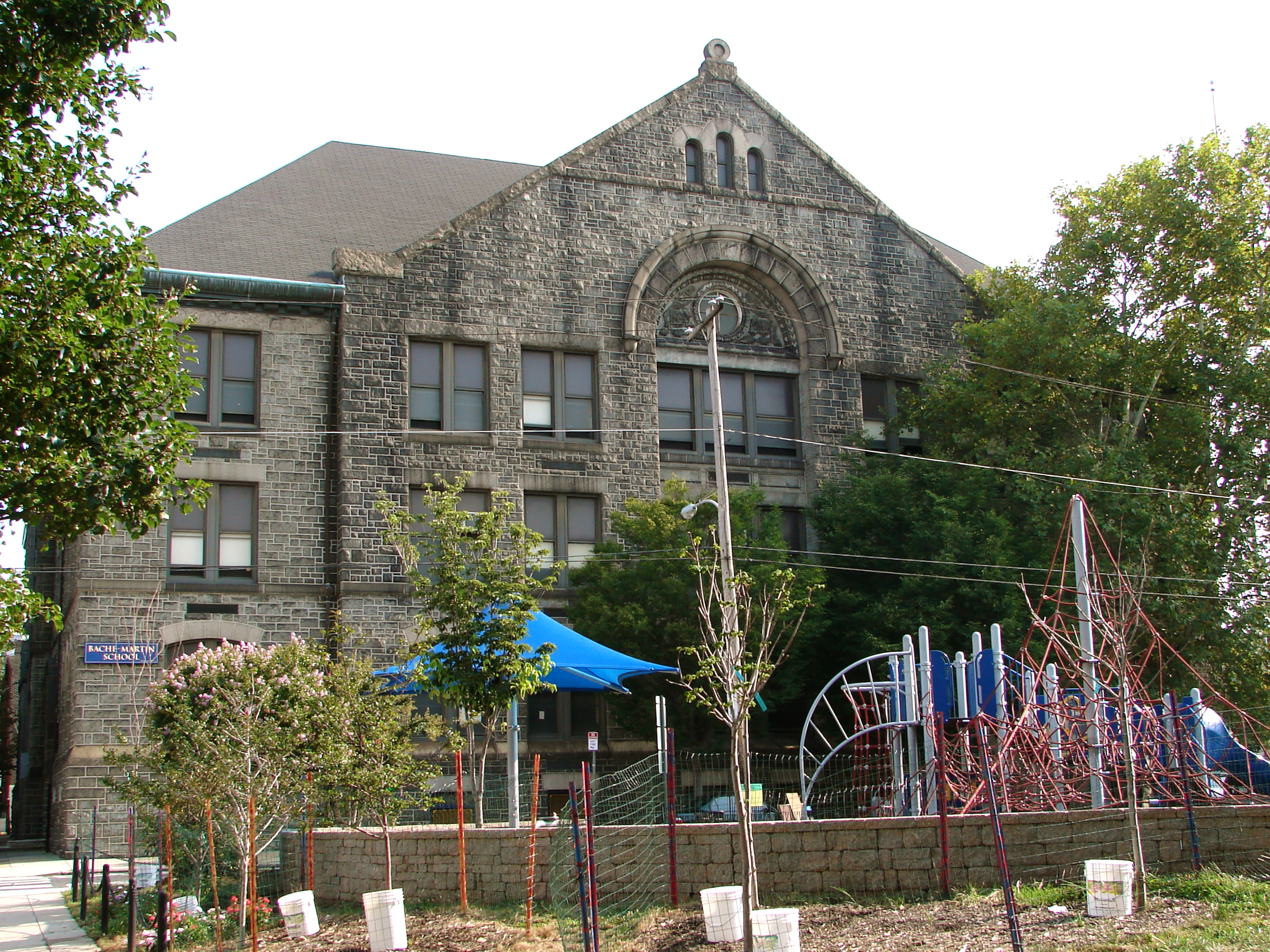 Alexander Dallas Bache School in Philadelphia, on the NRHP since December 4, 1986. At 801 North 22nd Street in the Fairmount neighborhood of North Philly. Note that at 800 N. 22nd, right across the street is the Martin Orthopedic School, also on the NRHP